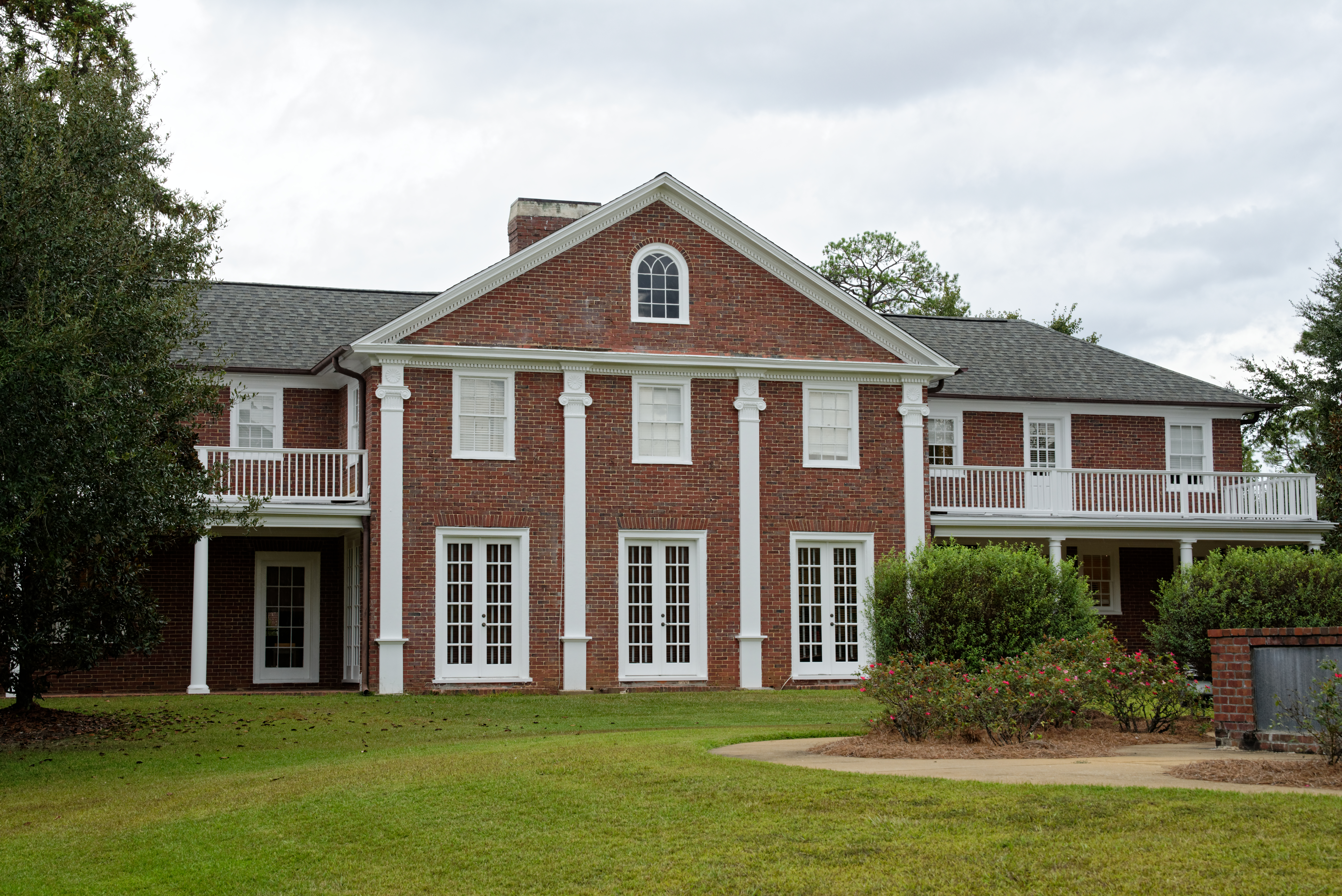 Birdwood, now known as Forbes Hall at Thomas University, Thomasville, Georgia, US